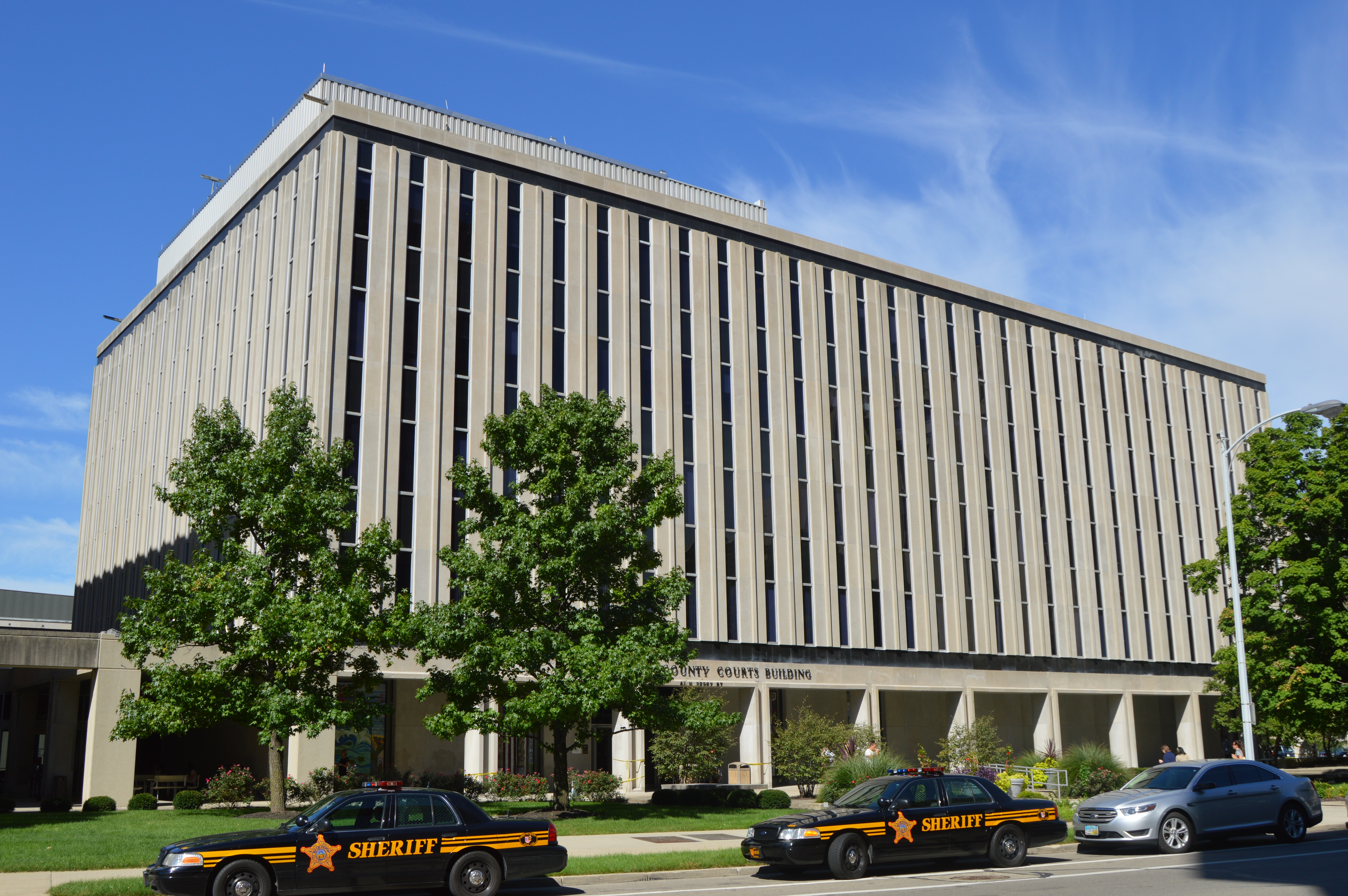 Eastern side of the new Montgomery County Courthouse, located at 41 N. Perry Street in downtown Dayton, Ohio, United States.